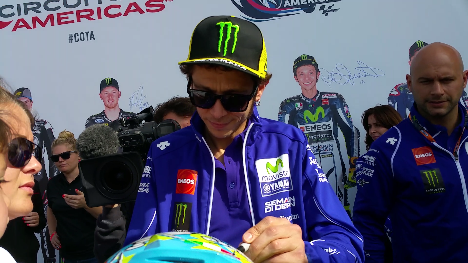 Valentino Rossi during an autograph session at the 2015 Motorcycle Grand Prix of the Americas